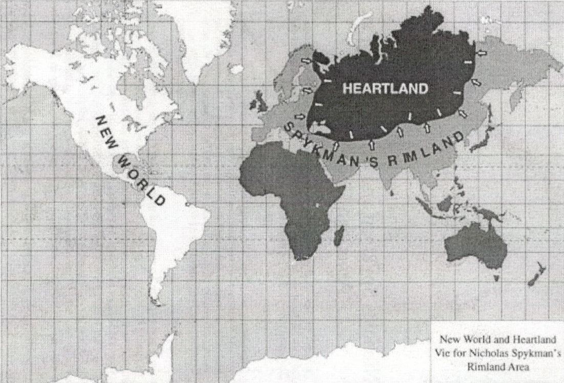 Geopolitical conceptualization of the world according to Heartland and Rimland doctrines